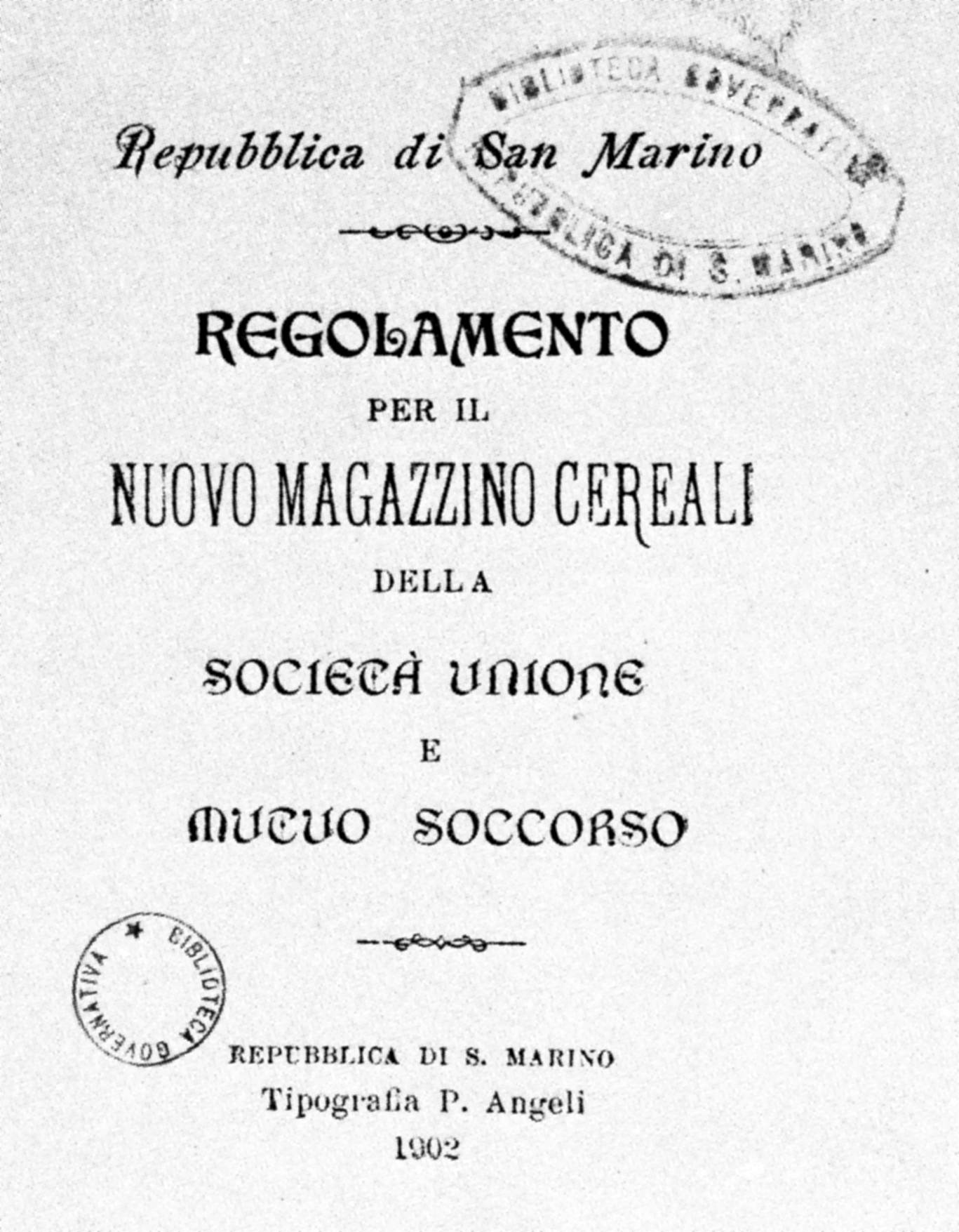 Magazzino cereali (SUMS)